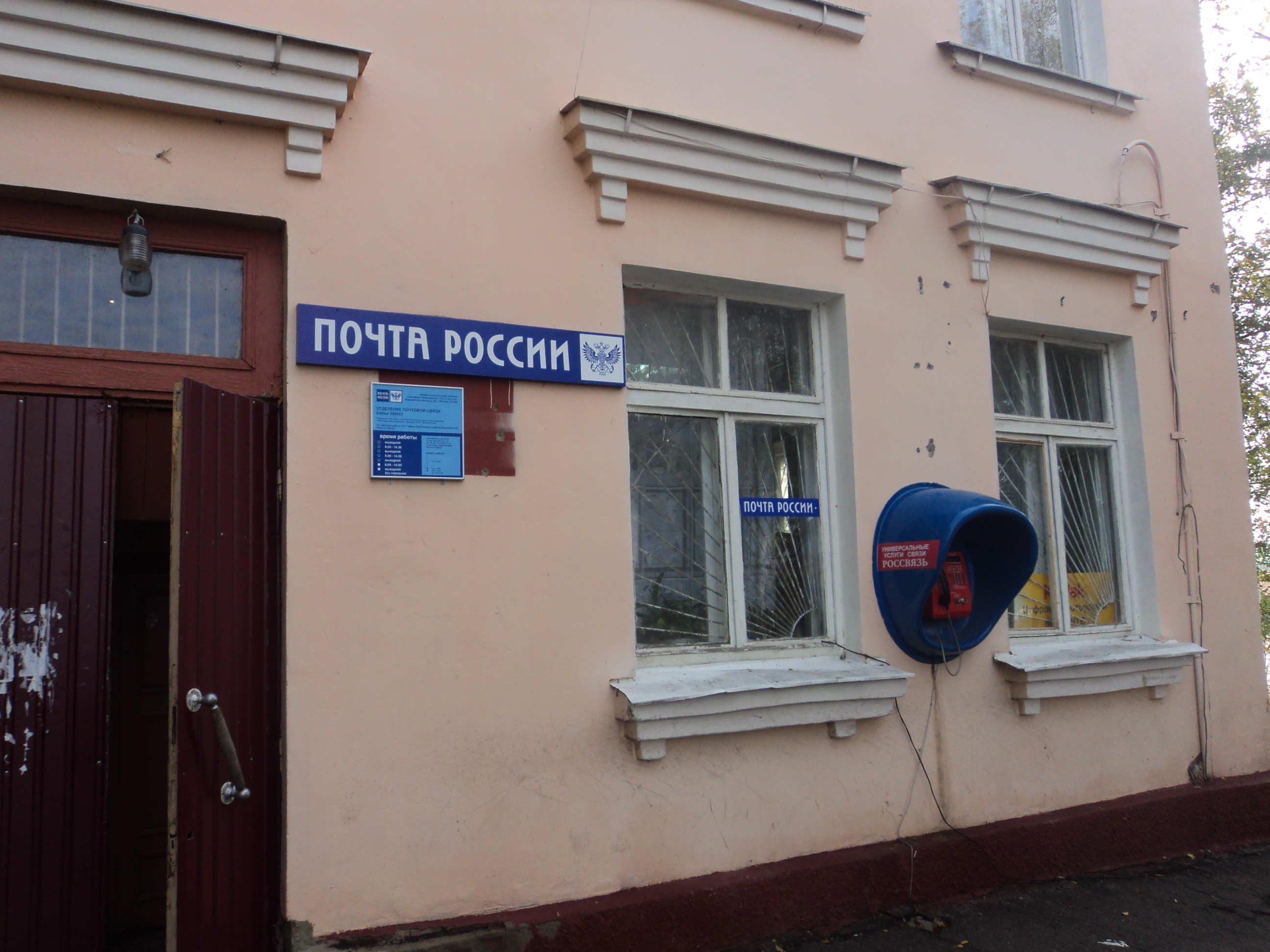 Post office in building of house of culture in Babka, Voronezh Oblast